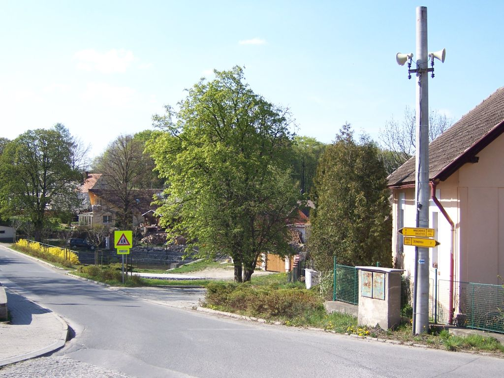 Louňovice